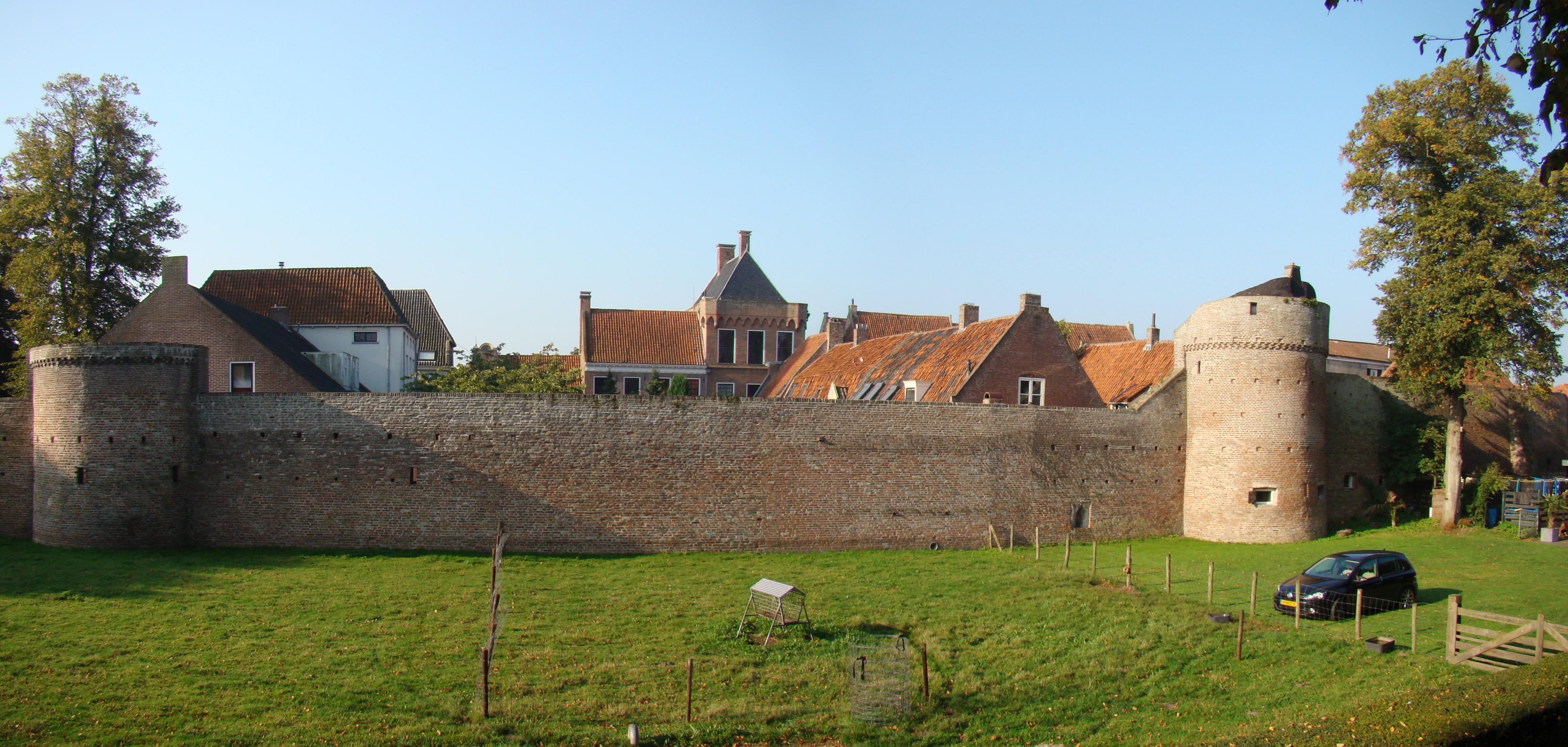 Citywall of Elburg, The Netherlands